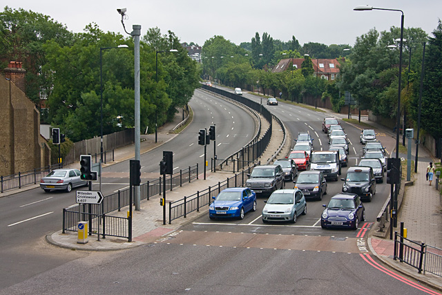 A41, Hendon Way At the junction with the A407 Cricklewood Lane. Cars wait in lines for the lights to change. The illusion of peace and order is about to be shattered! Coming down the hill in the distance are two unmarked police vehicles escorting a white van. Chaos ensued.